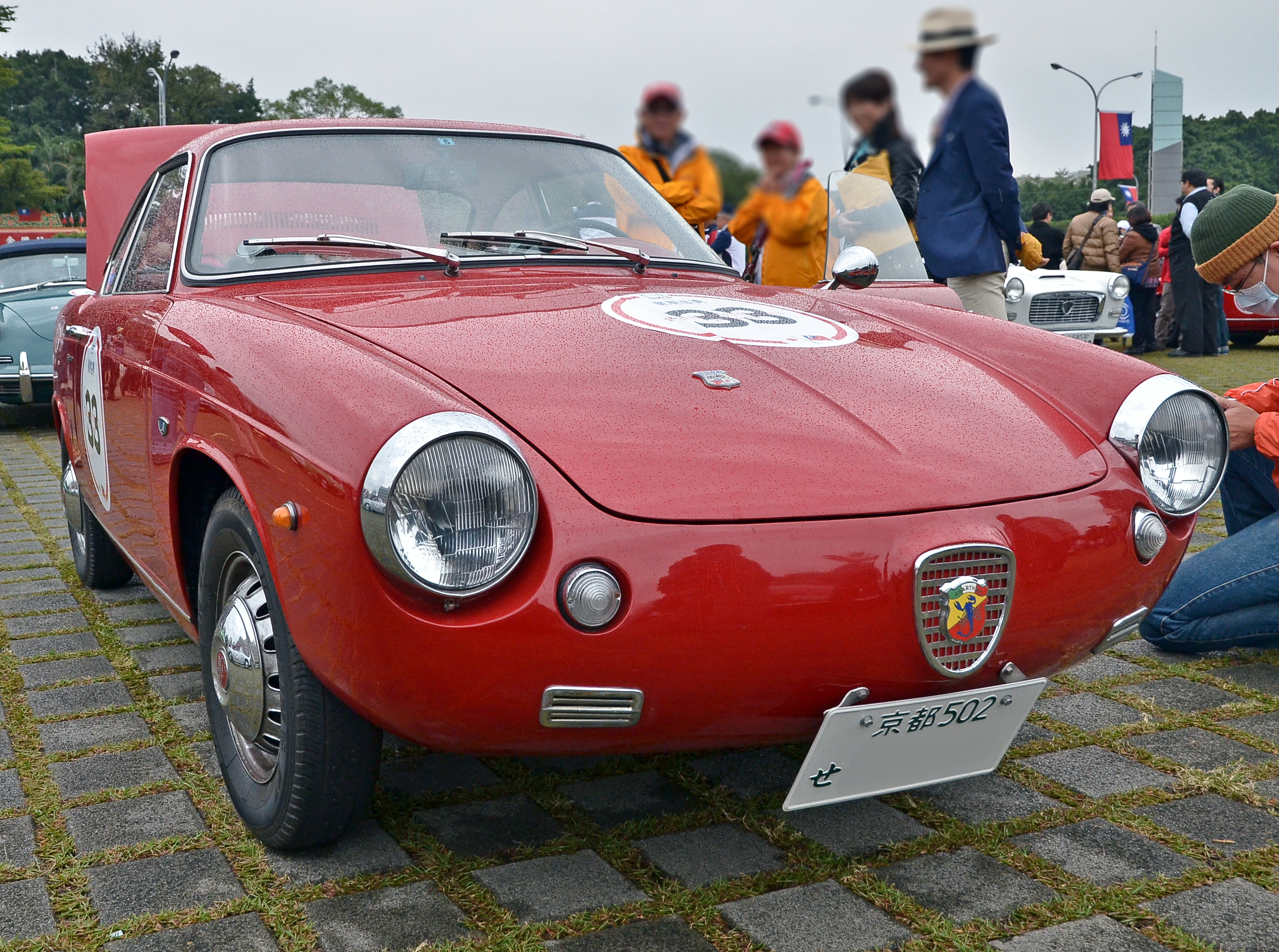 Abarth 850 Coupé Allemano (1961) in Taiwan, part of a classic car meet arranged by Japanese enthusisasts.